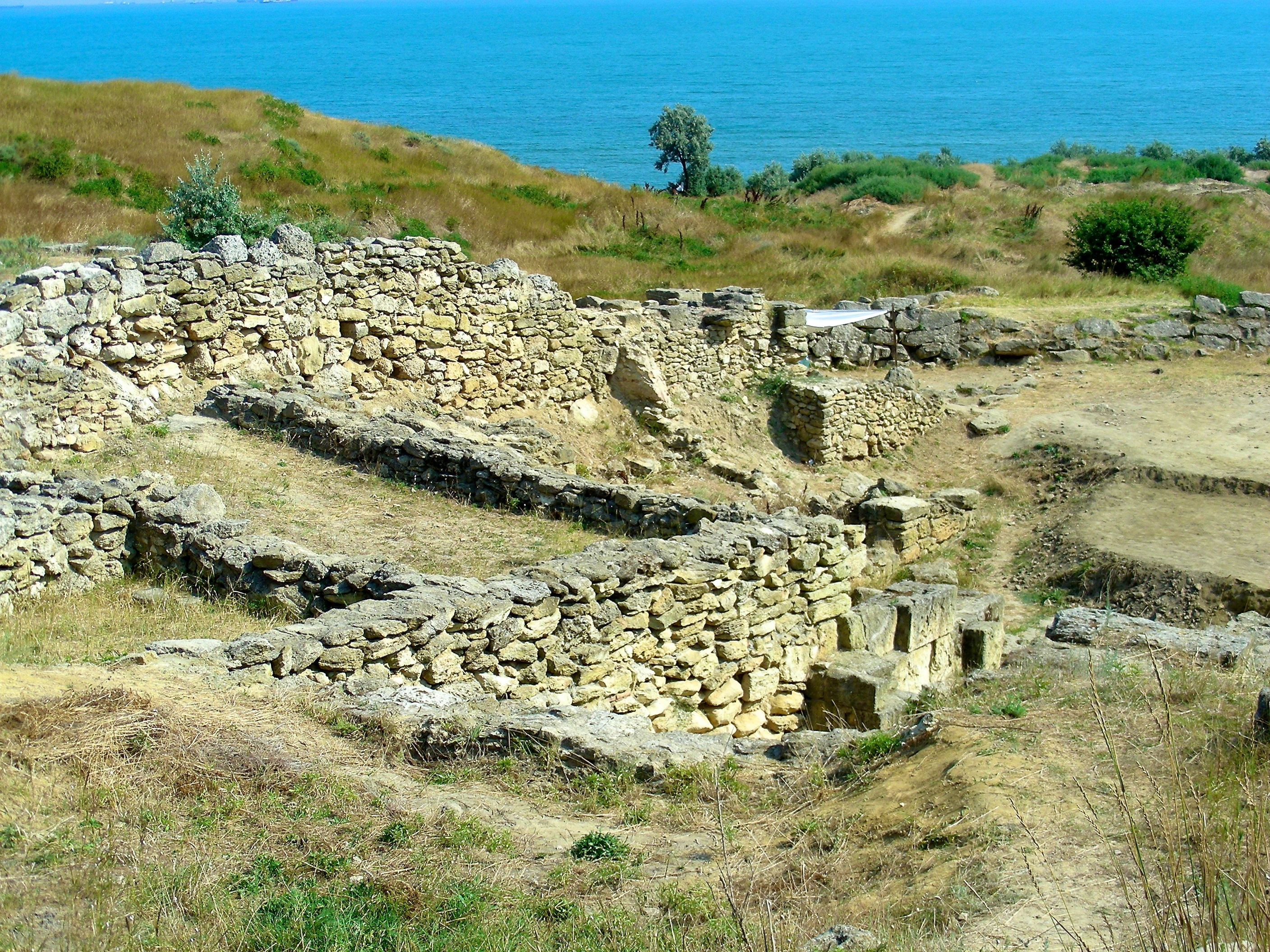 Nymphaion (Crimea) excavations